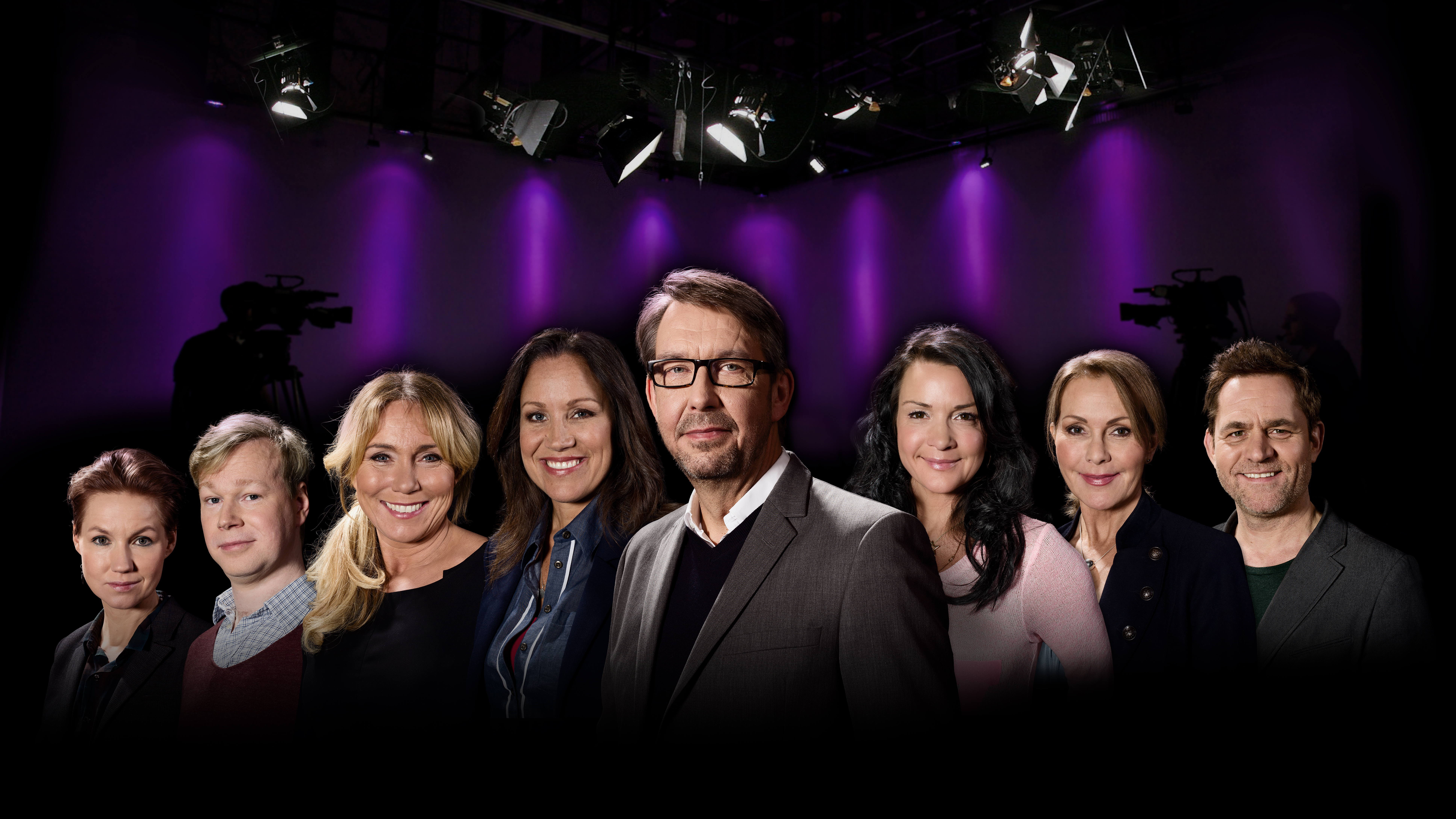 Presenter line-up for the 2014 documentary tv series about TV history.